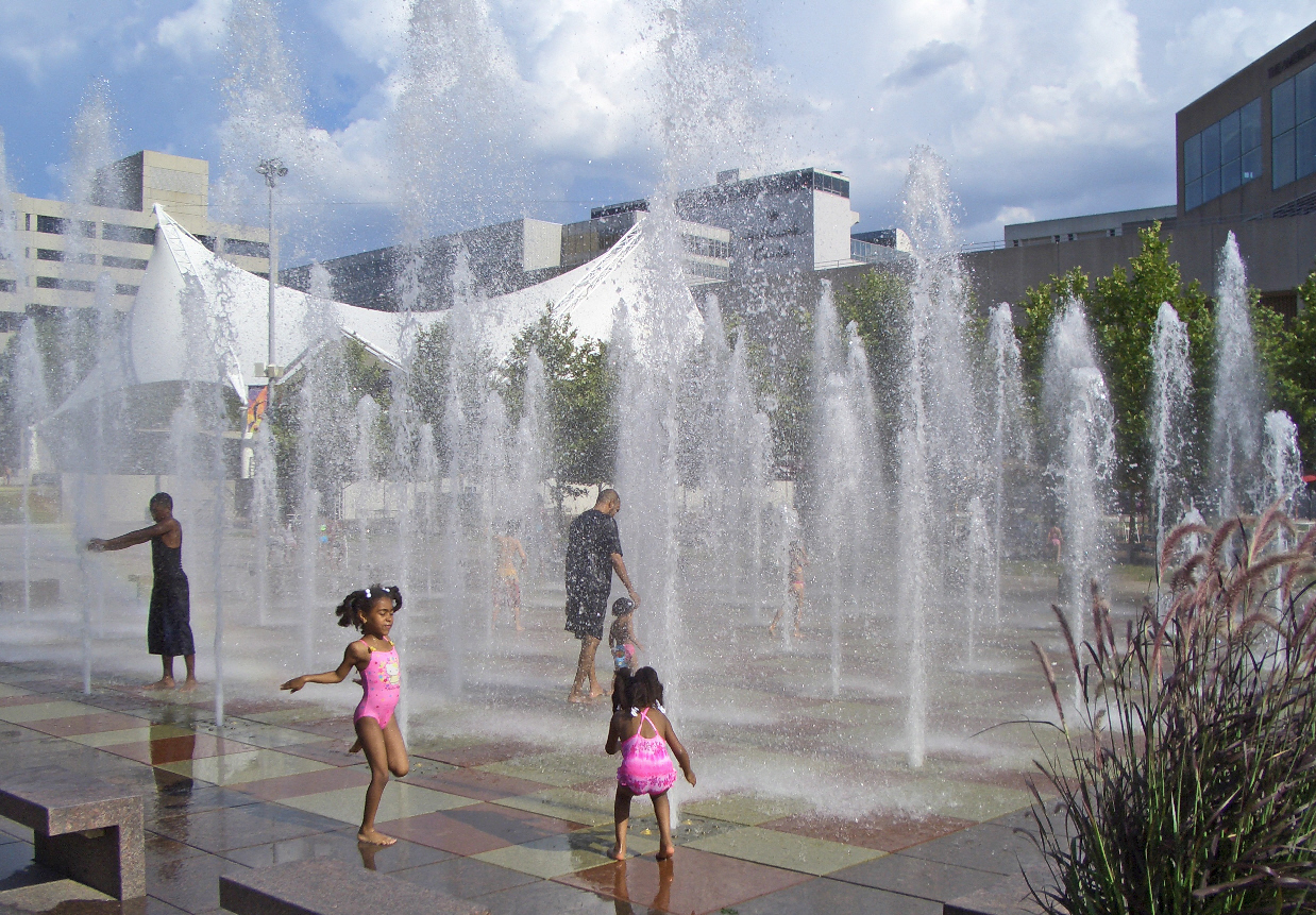 Crown Center Square Fountain, at Crown Center, Kansas City, Missouri